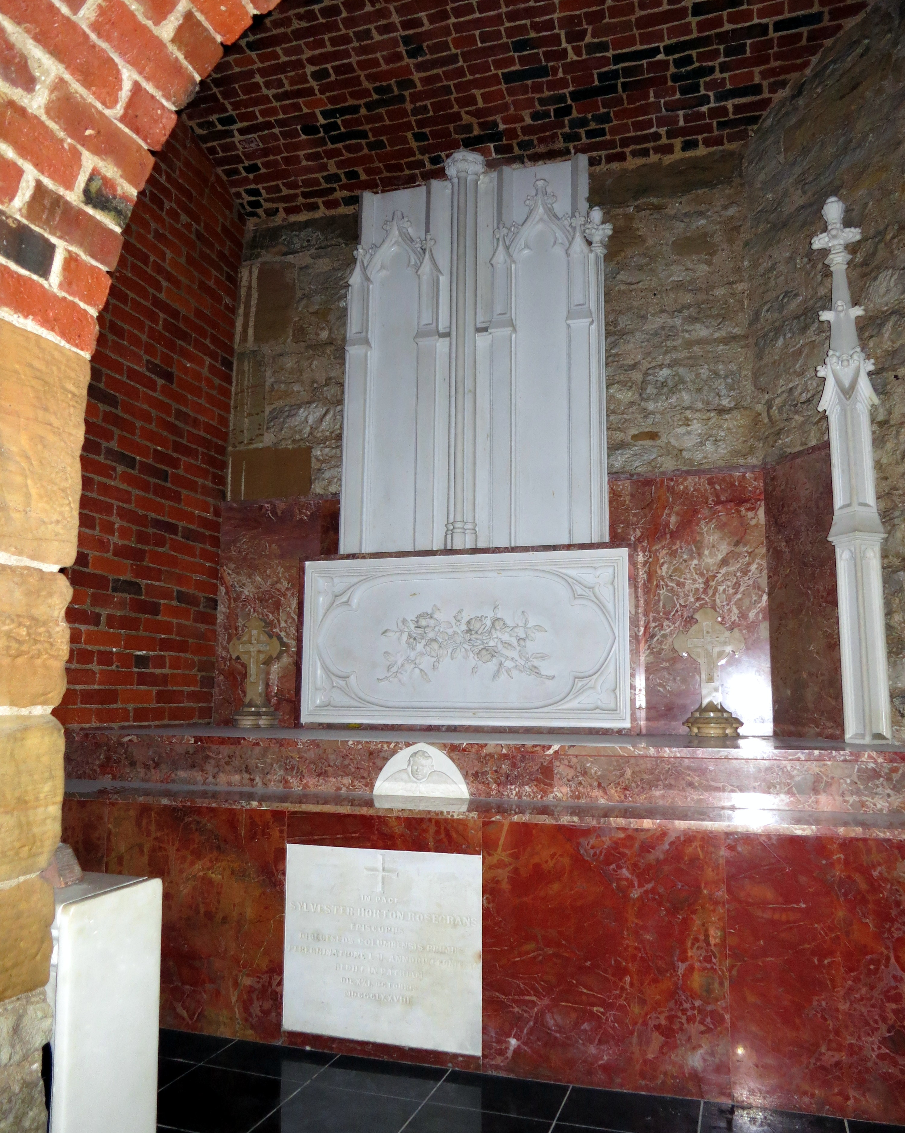 Saint Joseph Cathedral (Columbus, Ohio) - undercroft, tomb of Bishop Rosecrans